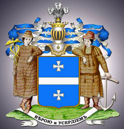 Coat of Arms of Shelehovy family